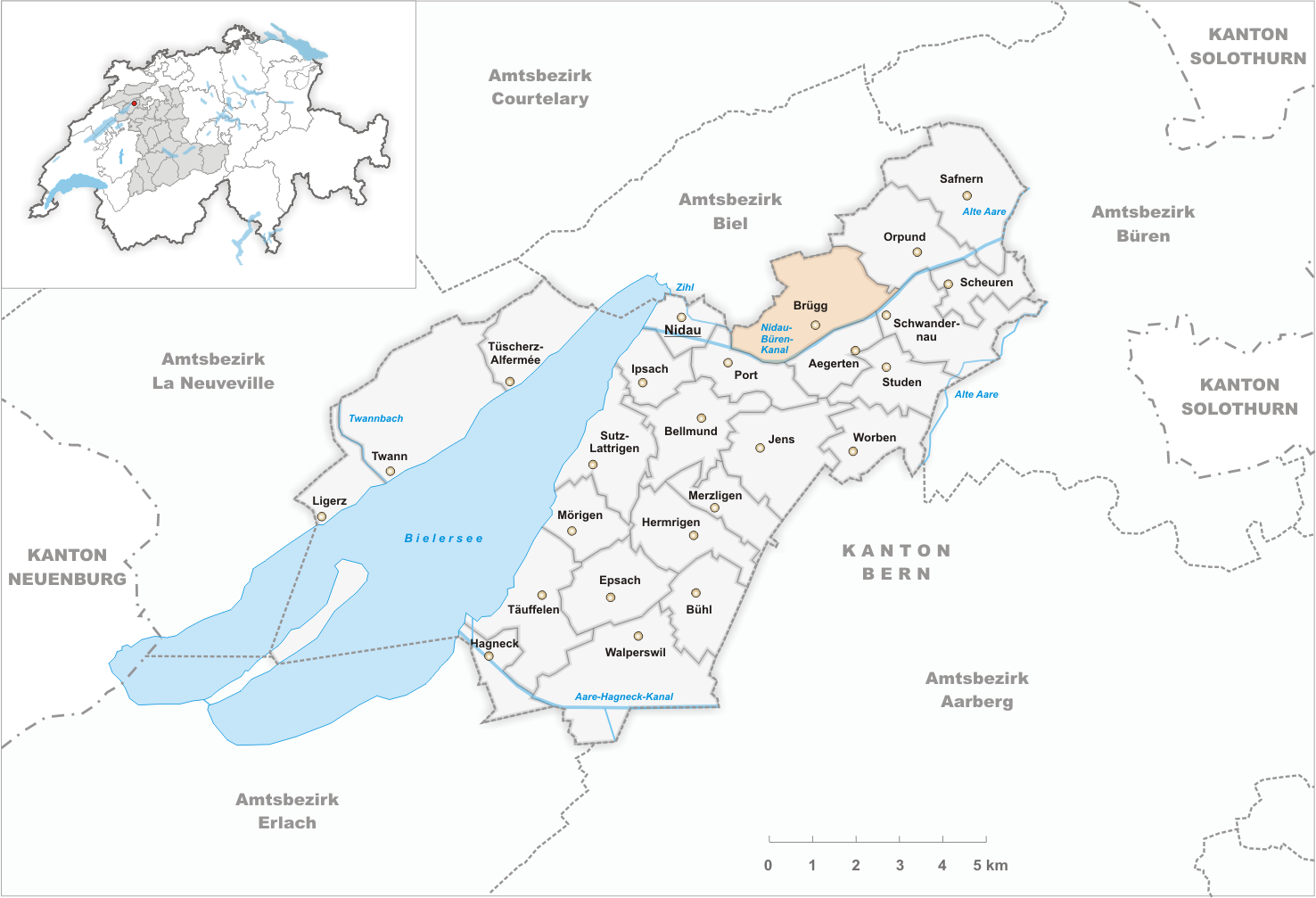 Municipality Brügg